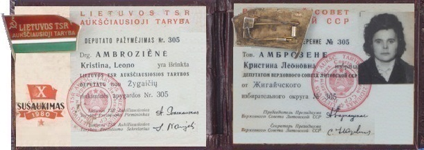 Identity cards of the people's Deputy of the Supreme Council of the Lithuania SSR - Lithuania Soviet Socialist Republic the 10-th convocation 1980 y.